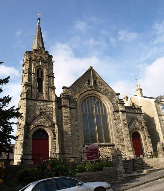 Beechen Cliff Methodist Church On the steep Shakespeare Avenue, just up from Bear Flat.